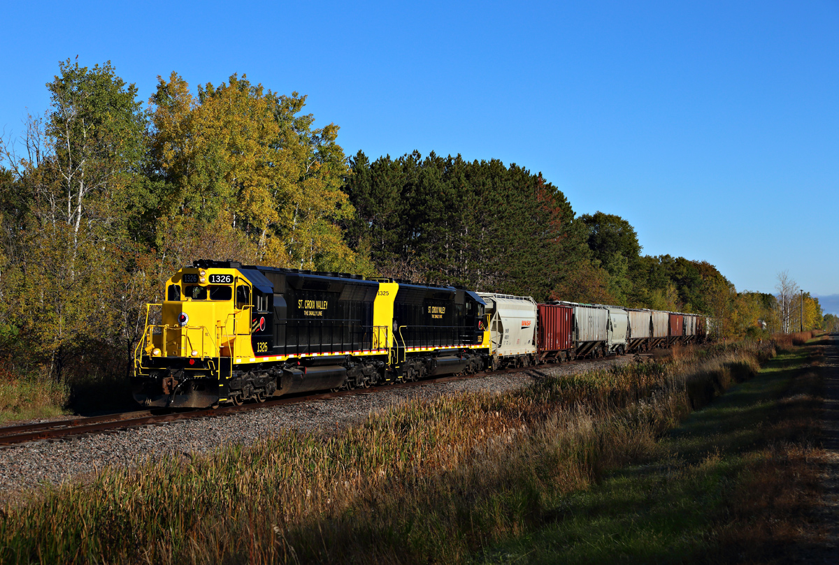 1326 and 1325 have 40 cars and two GPs on the rear for the south end of the line at North Branch, Minn.